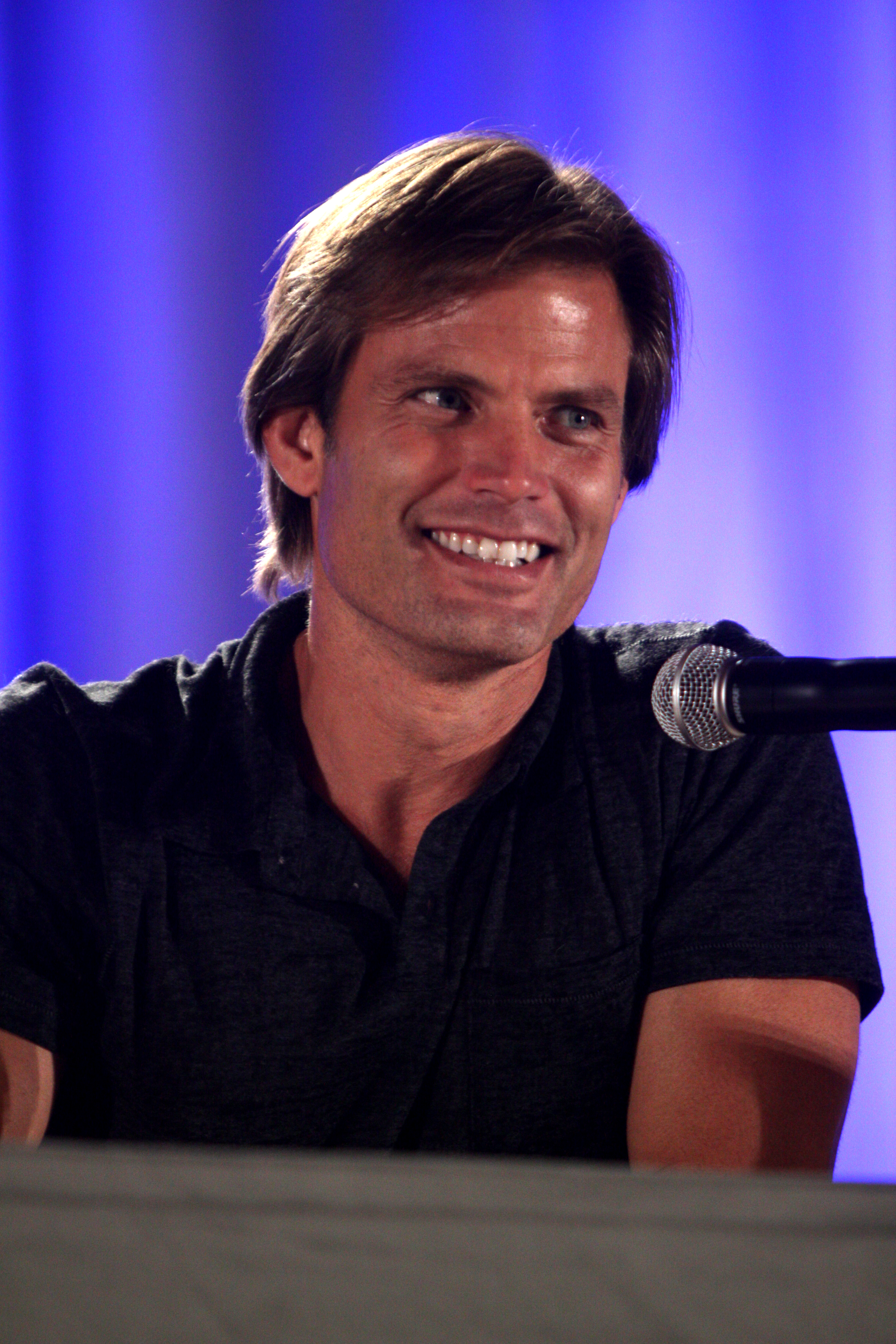 Casper Van Dien at the 2012 Phoenix Comicon in Phoenix, Arizona.